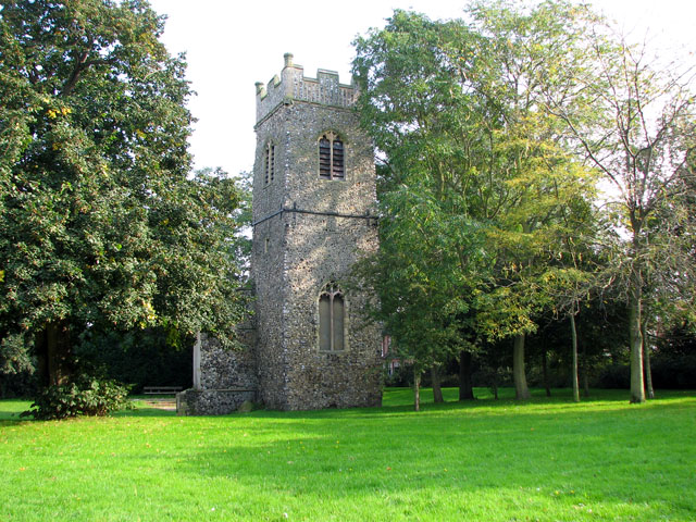 The ruin of St Bartholomew Heigham, Norwich